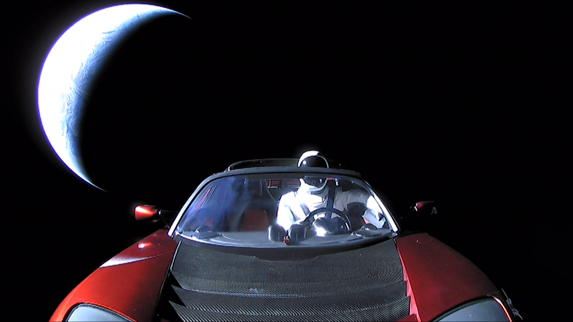 Elon Musk's Tesla Roadster, with Earth in background. "Spaceman" mannequin wearing SpaceX Spacesuit in driving seat. "Last image" transmitted. Camera mounted on external boom.